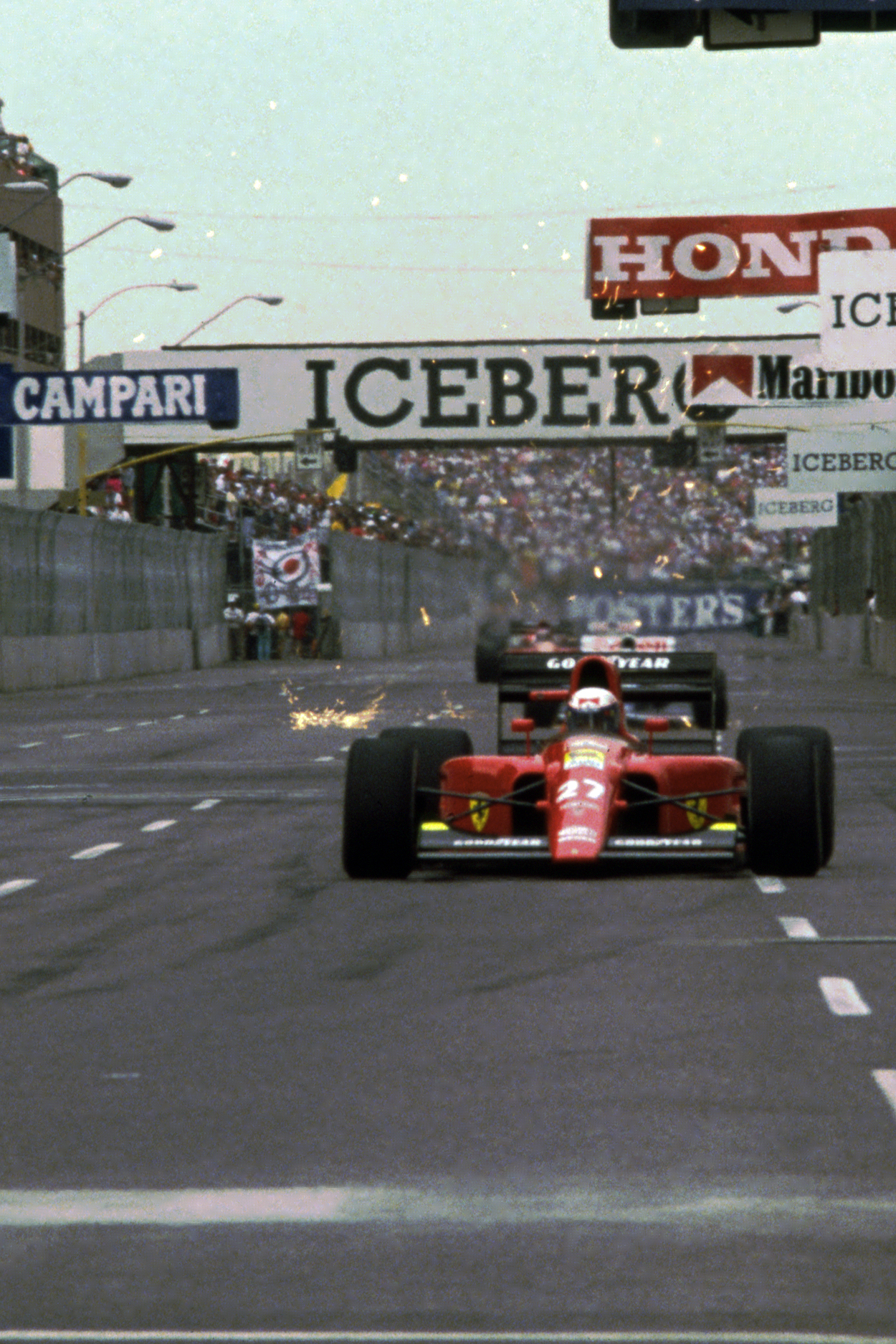 Alain Prost Scuderia Ferrari (competed in 1991) on the first lap of the 1991 United States Grand Prix in Phoenix